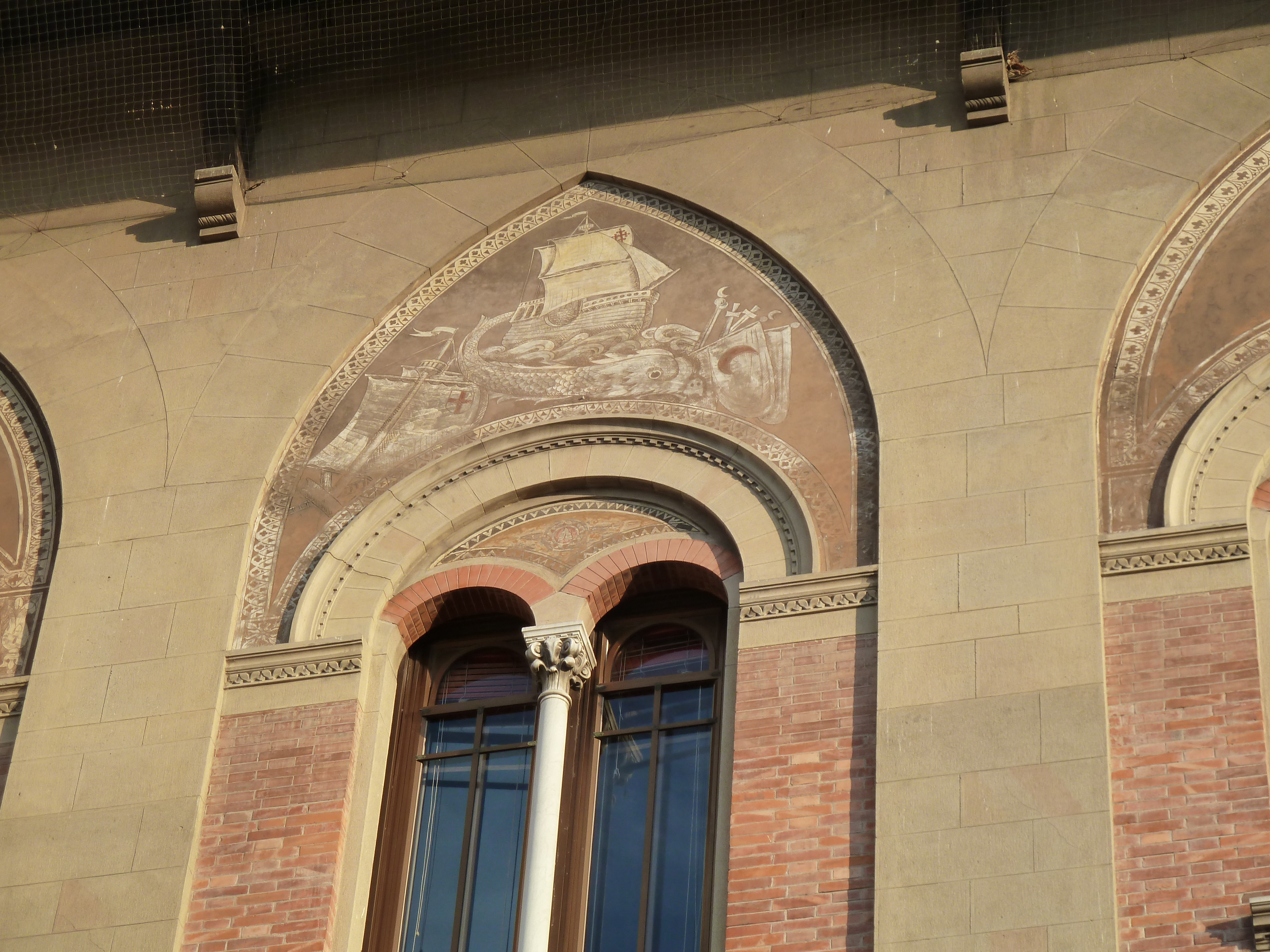 Main Post Office Pisa, Italy 2015